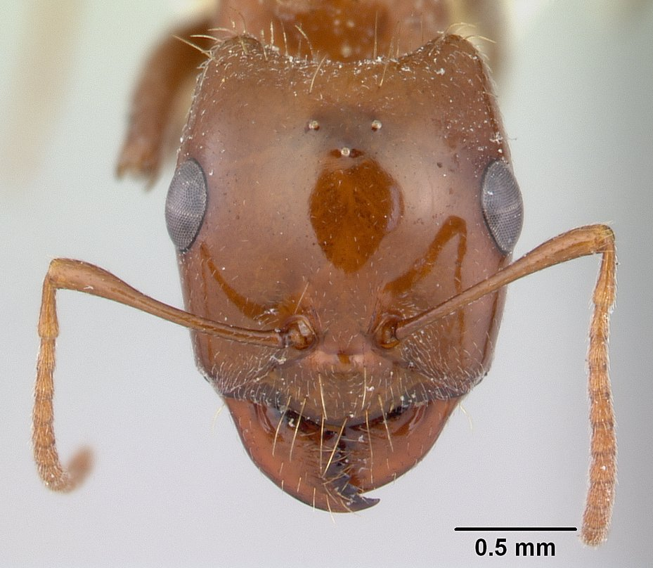 Head view of ant Rossomyrmex proformicarum specimen casent0178514.